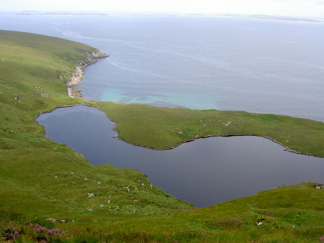 Lough Nakeeroge. Lough Nakeeroge is the lowest glacial tarn in Ireland at only 18 metres above sea level.